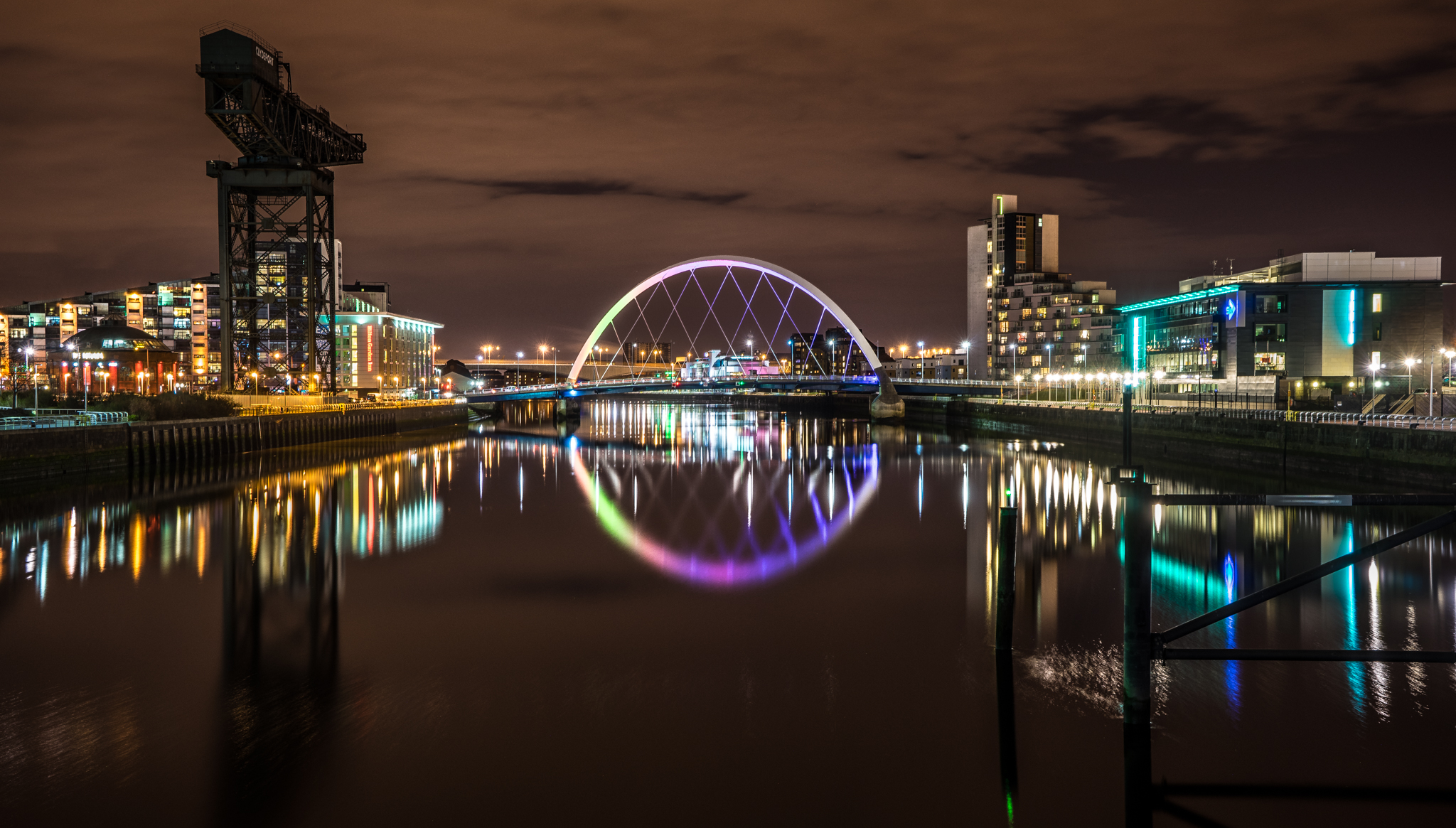 Finnieston Crane and Clyde Arc, Glasgow, Scotland